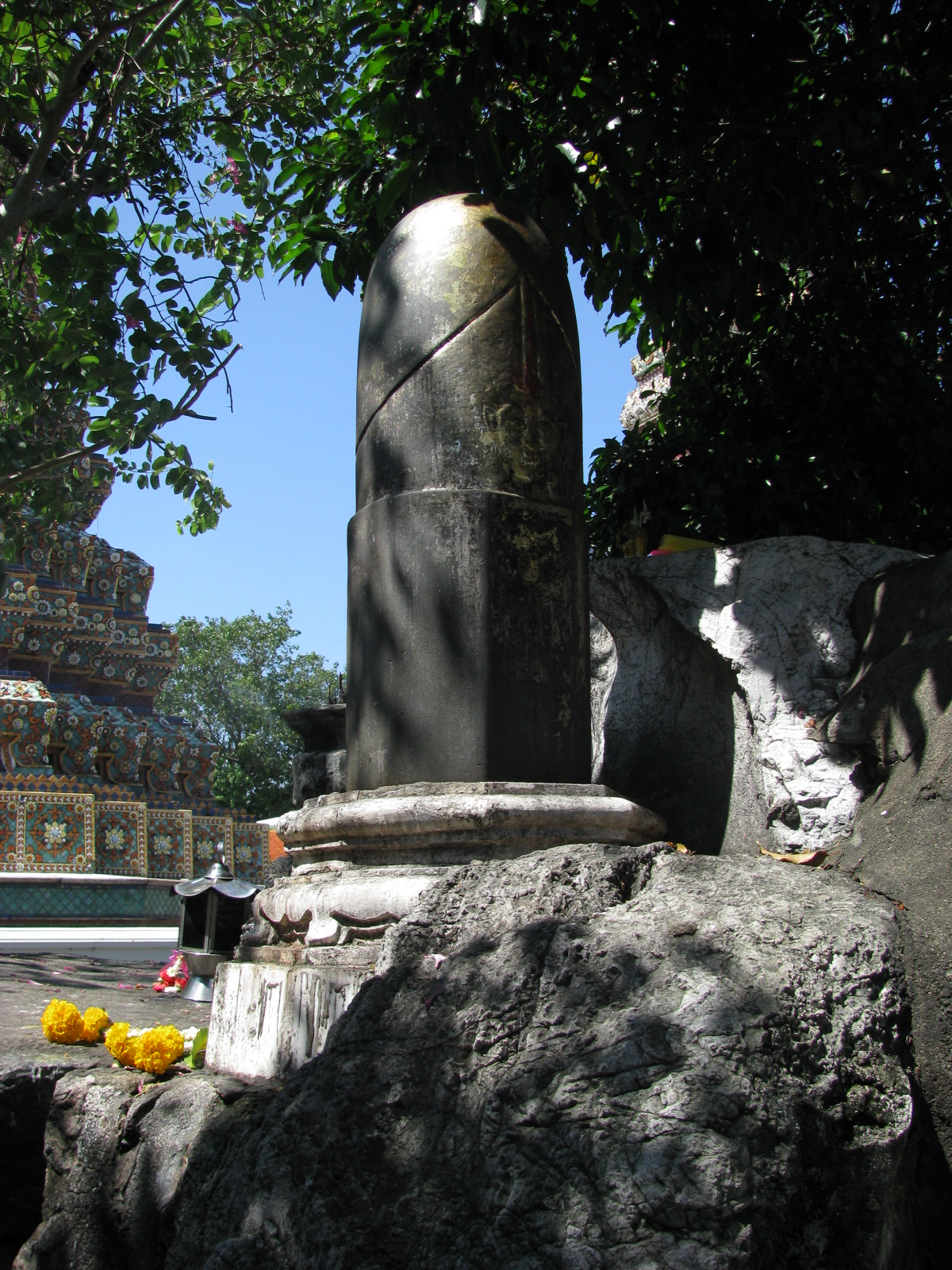 Wat Pho is a Buddhist temple, located in Phra Nakhon, Bangkok, Thailand.